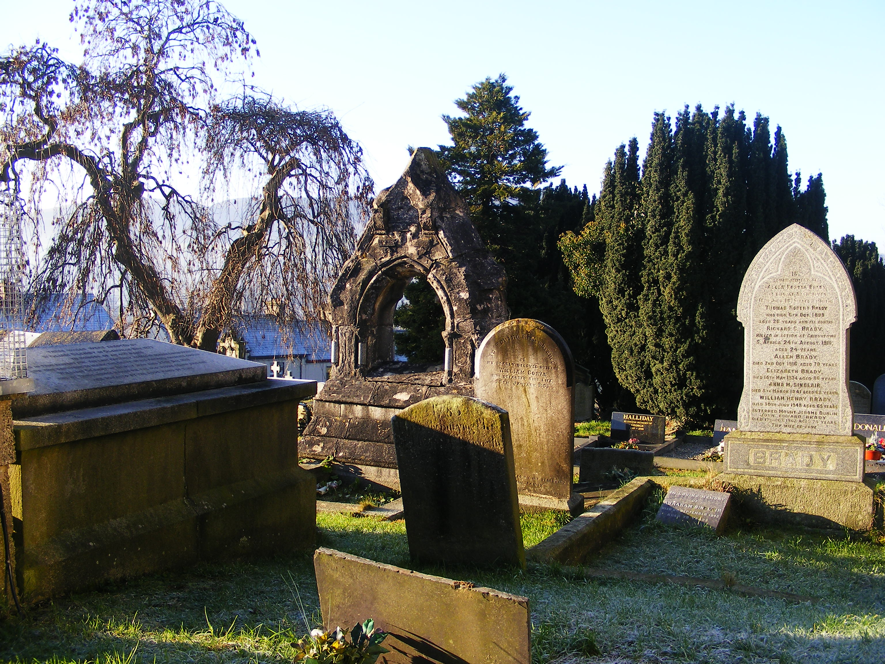 Church yard of Saint Patrick's, Newry